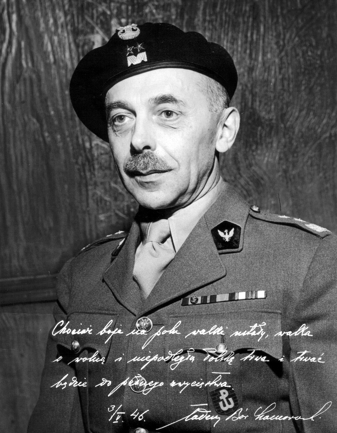 Polish General Tadeusz Bor Komorowski, C/O of the Polish Home Army in World War II. Picture taken in 1946.